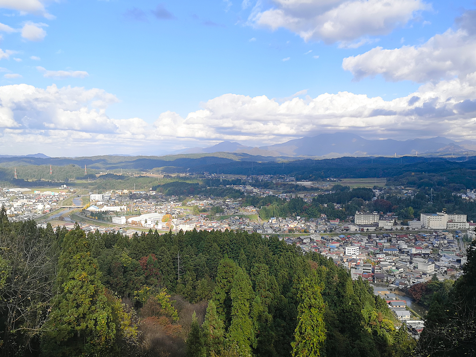 The viewing from the ruin of Tochio Castle in Niigata , Japan